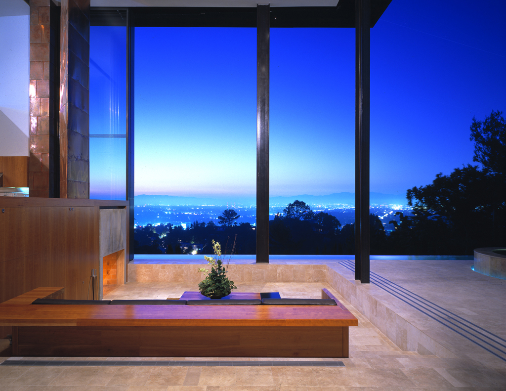 Redelco Residence, Hollywood Hills, California – Modern House with a view in the Hollywood Hills, California